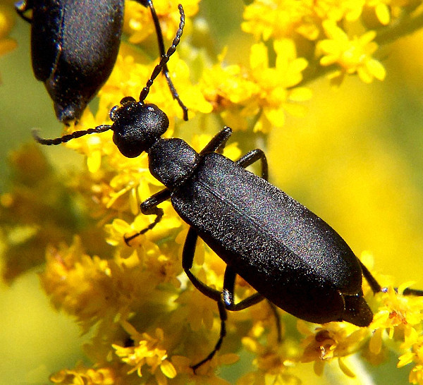 jpeg image, black blister beetle, Epicauta pannsylvanica shown on Goldenrod, Solidago sp.